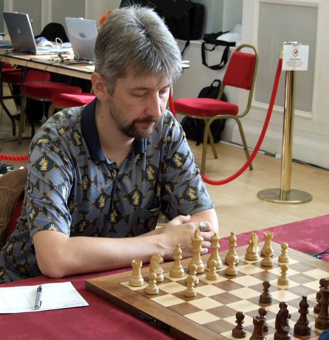 GM Normunds Miezis - Round 6 of 4th EU Individual Open Ch., Liverpool World Museum, William Brown Street